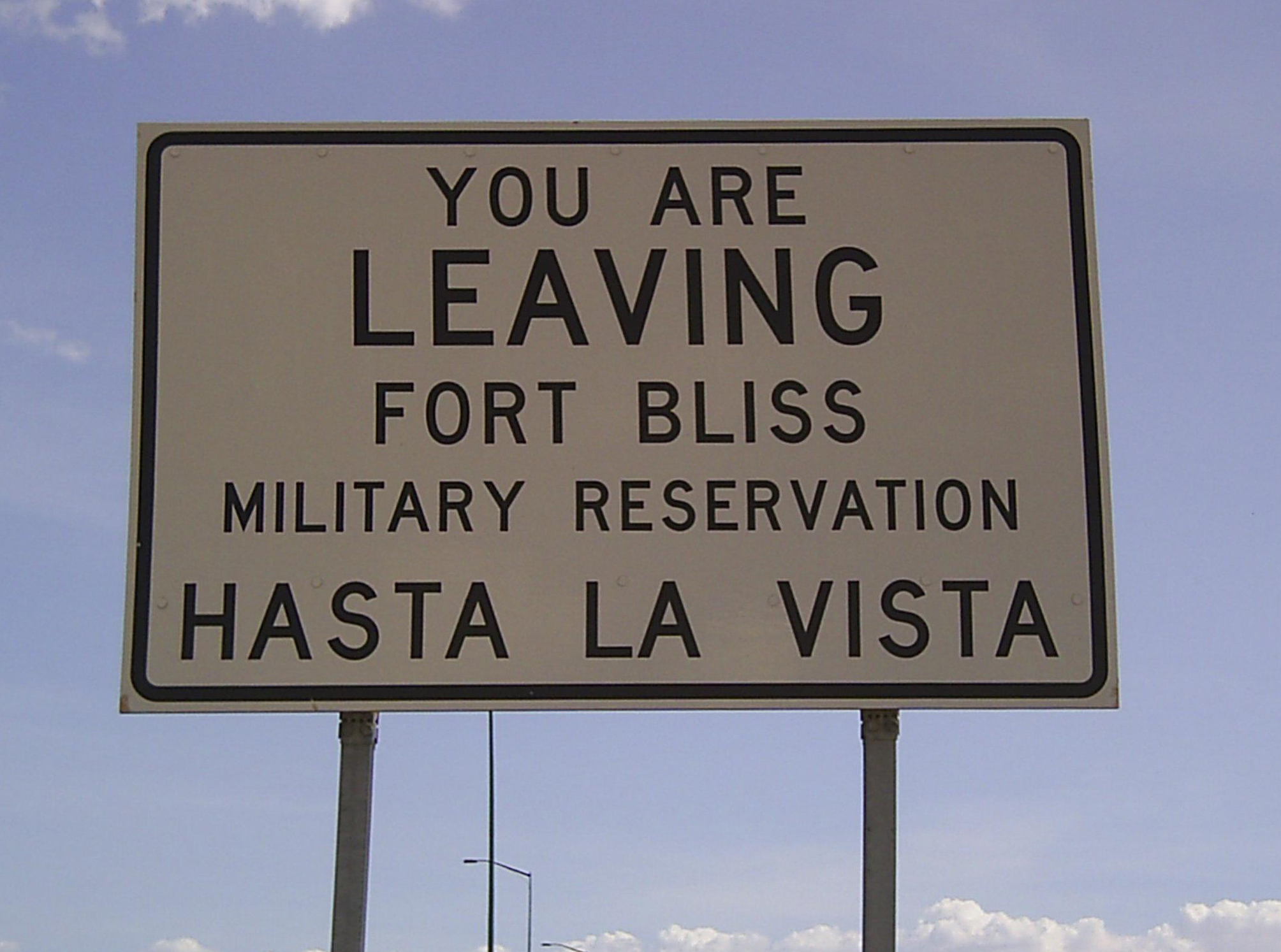 Civilian expansion has gradually encroached on land occupied by Fort Bliss, prompting city officials to place signs at the border where the two meet. This particular sign on Loop 375 denotes the end of the military installation on the far east side of El Paso.